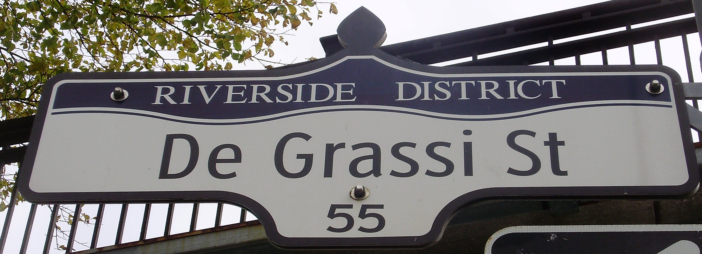 A street sign for De Grassi Street in the Riverside District of Toronto, Ontario, Canada.